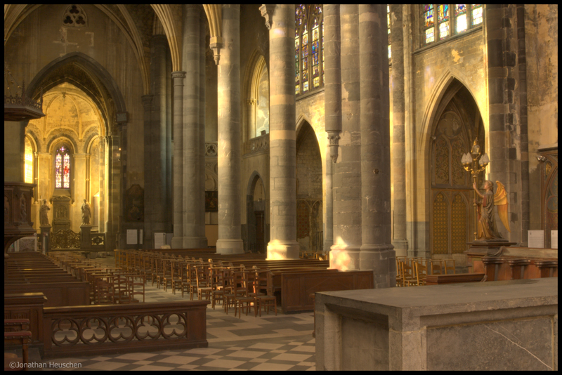 Collegiale Sainte-Croix, Liège